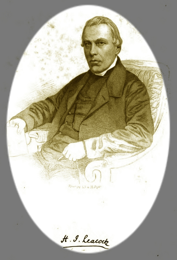 Portrait of Hamble James Leacock from The martyr of the Pongas (...) being a memoir of Hamble James Leacock, leader of the West Indian mission to western Africa.